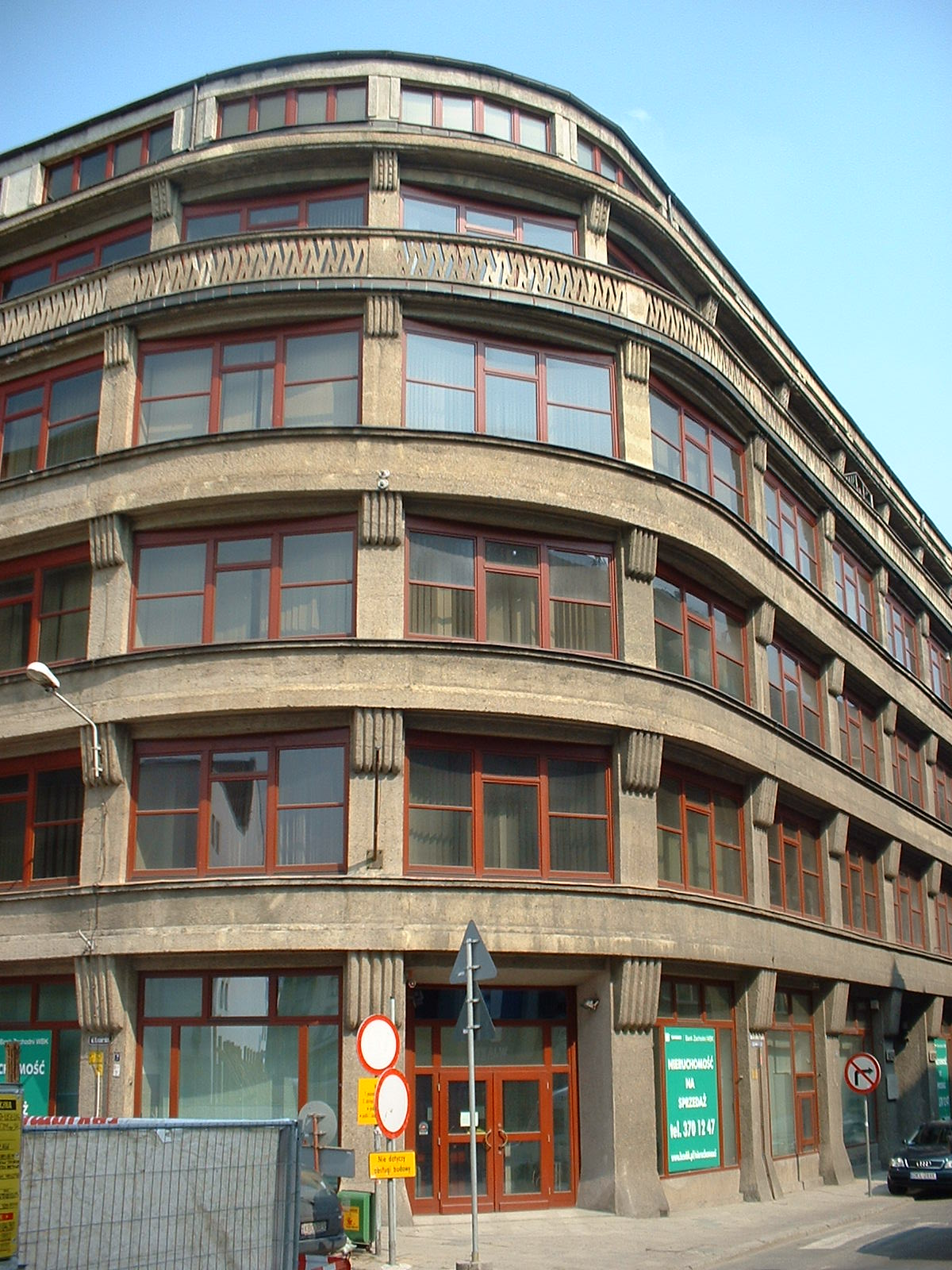 Corner of a departament store by Hans Poelzig.